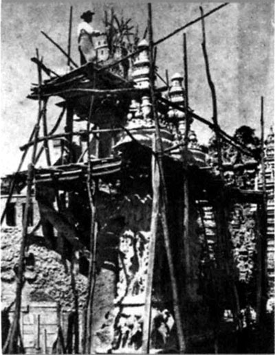 Ferdinand Cheval Working